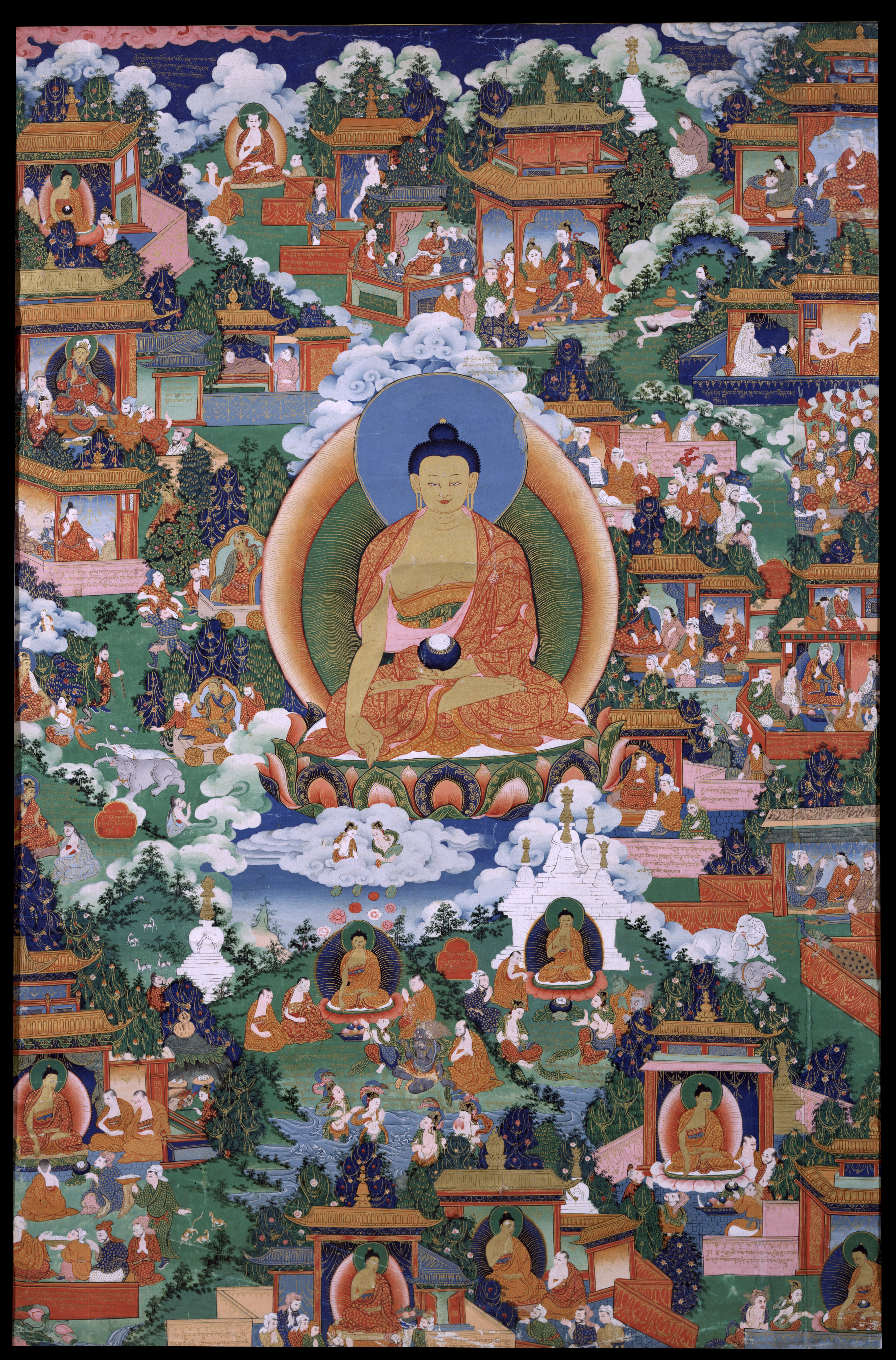 Shakyamuni Buddha with Avadana Legend Scenes